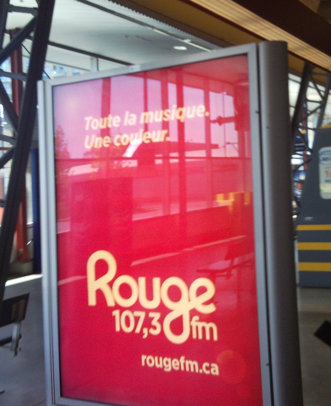 Billboard of CITE-FM (107,3 Rouge FM) photographed in Longueuil, Quebec, Canada at the Longueuil-Université De Sherbrooke métro station.